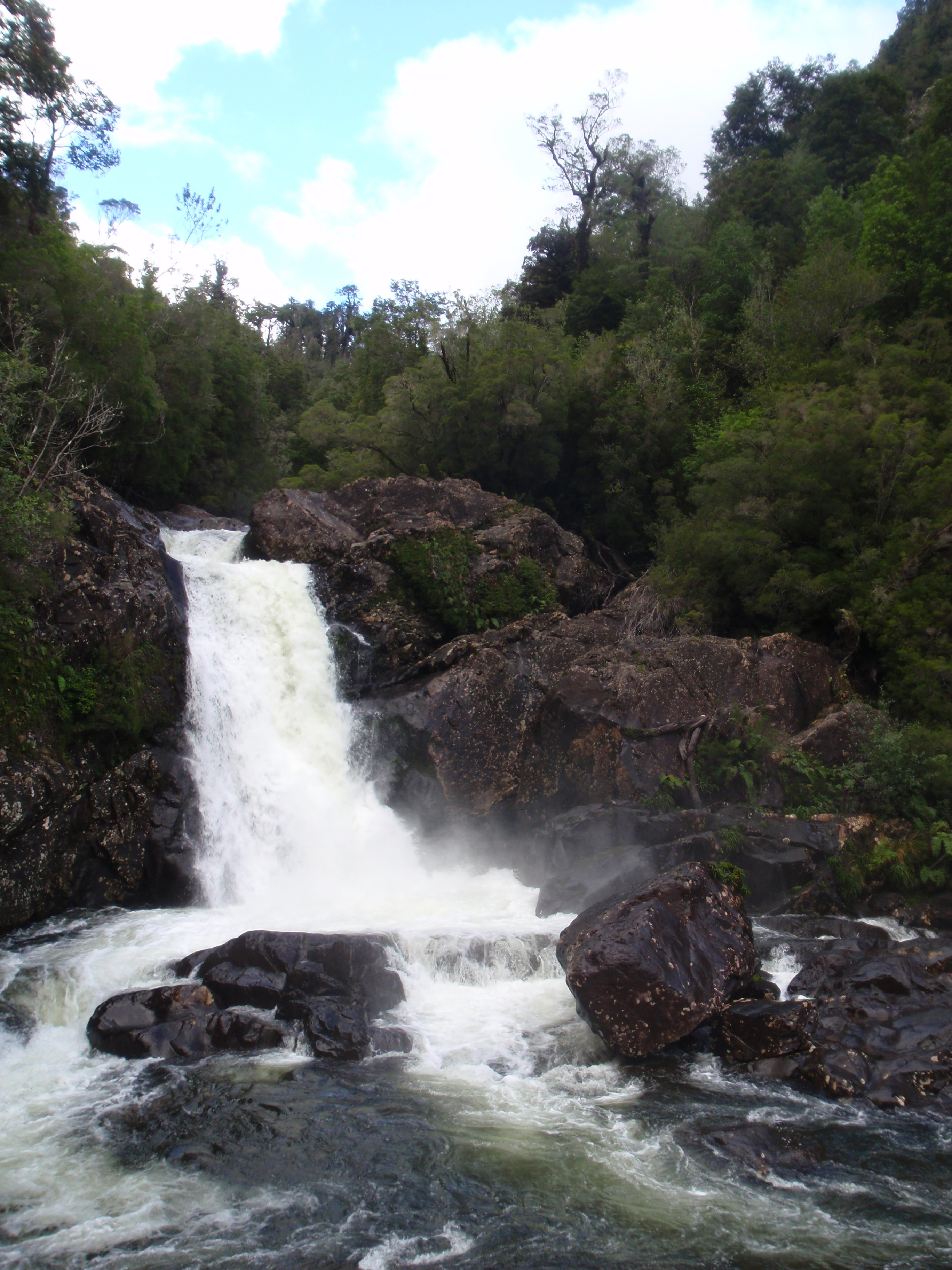 A waterfall within the Alerce Andino National Park in southern Chile.